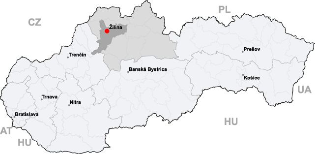 map of Slovakia, city of Žilina highlighted